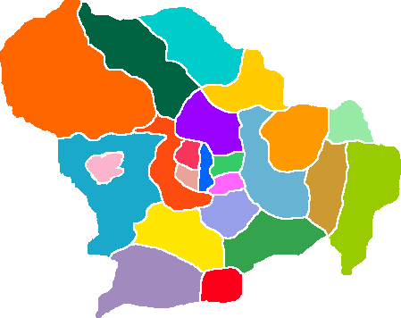 Subdivision of Shijiazhuang